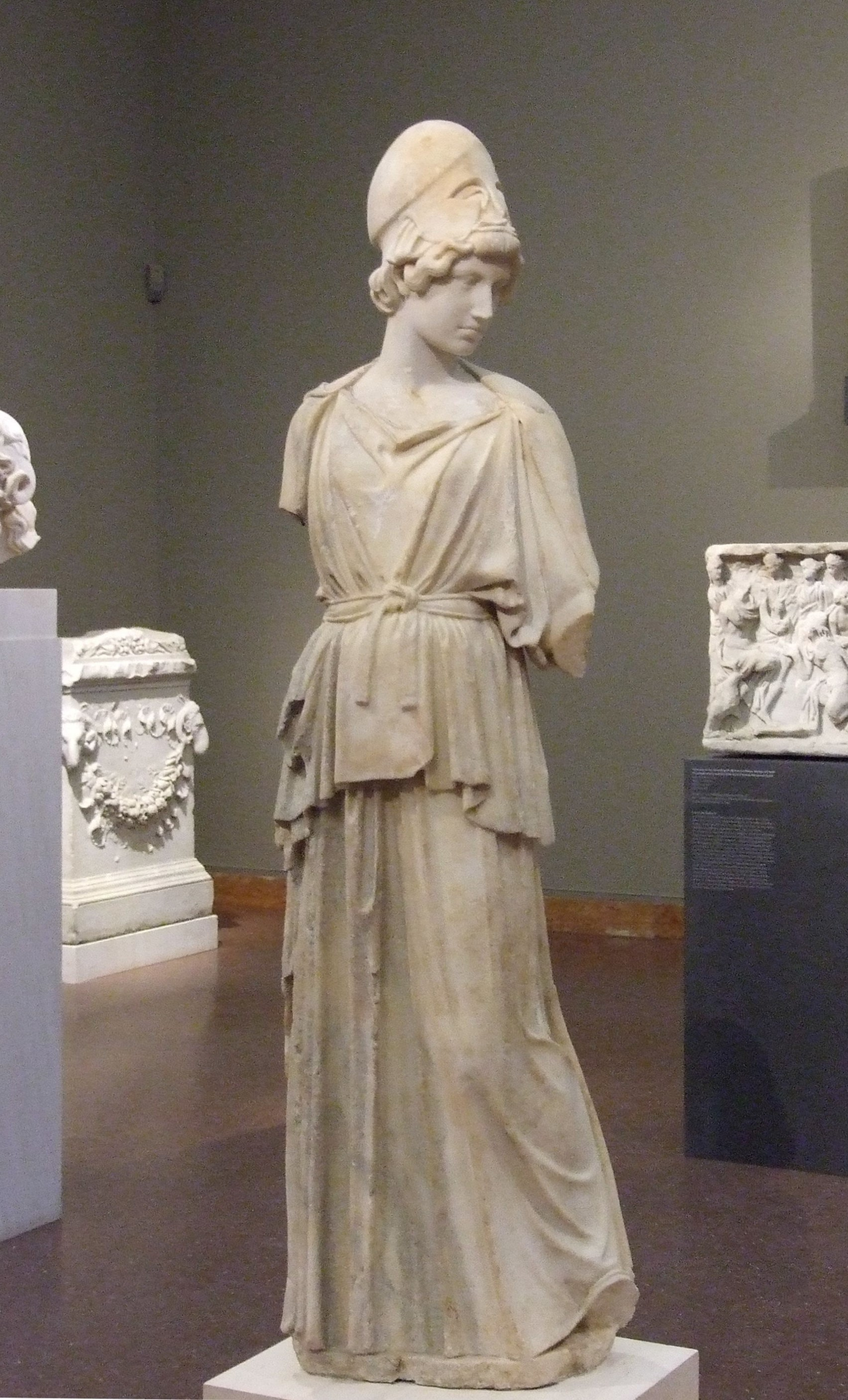 Unknown sculptor: "Athena of Myron", "Liebieghaus" in Frankfurt am Main, Germany.